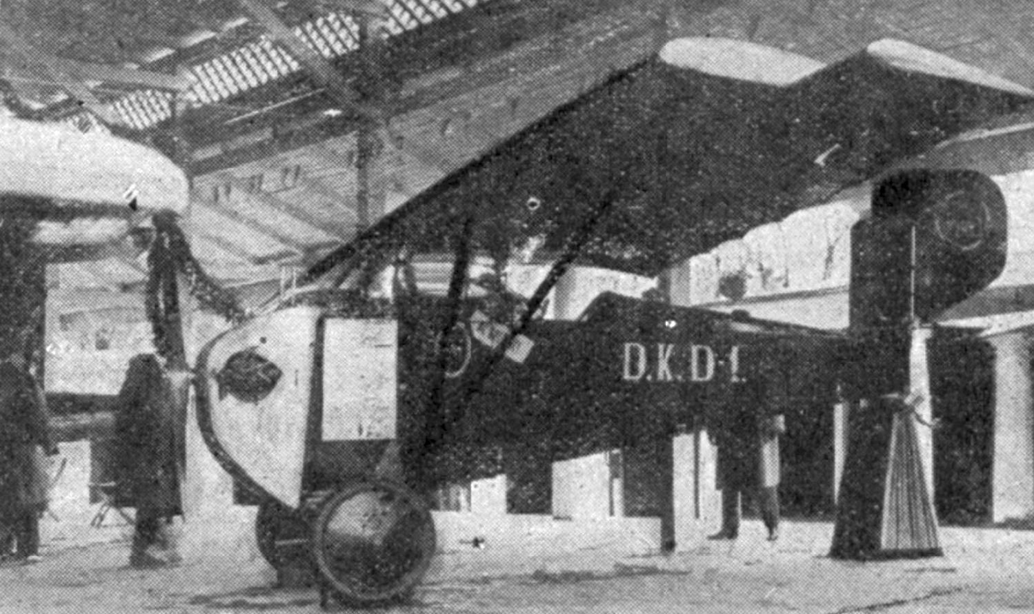 Dzialowski D.K.D.1 photo from Les Ailes May 19,1927